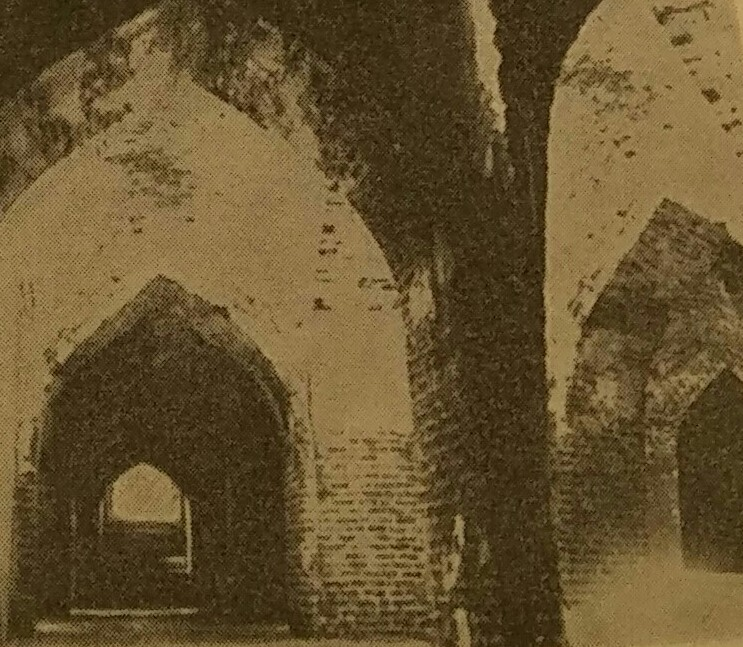 The old Interior view of Jameh Mosque of Sarab, East Azarbayjan Province, Iran